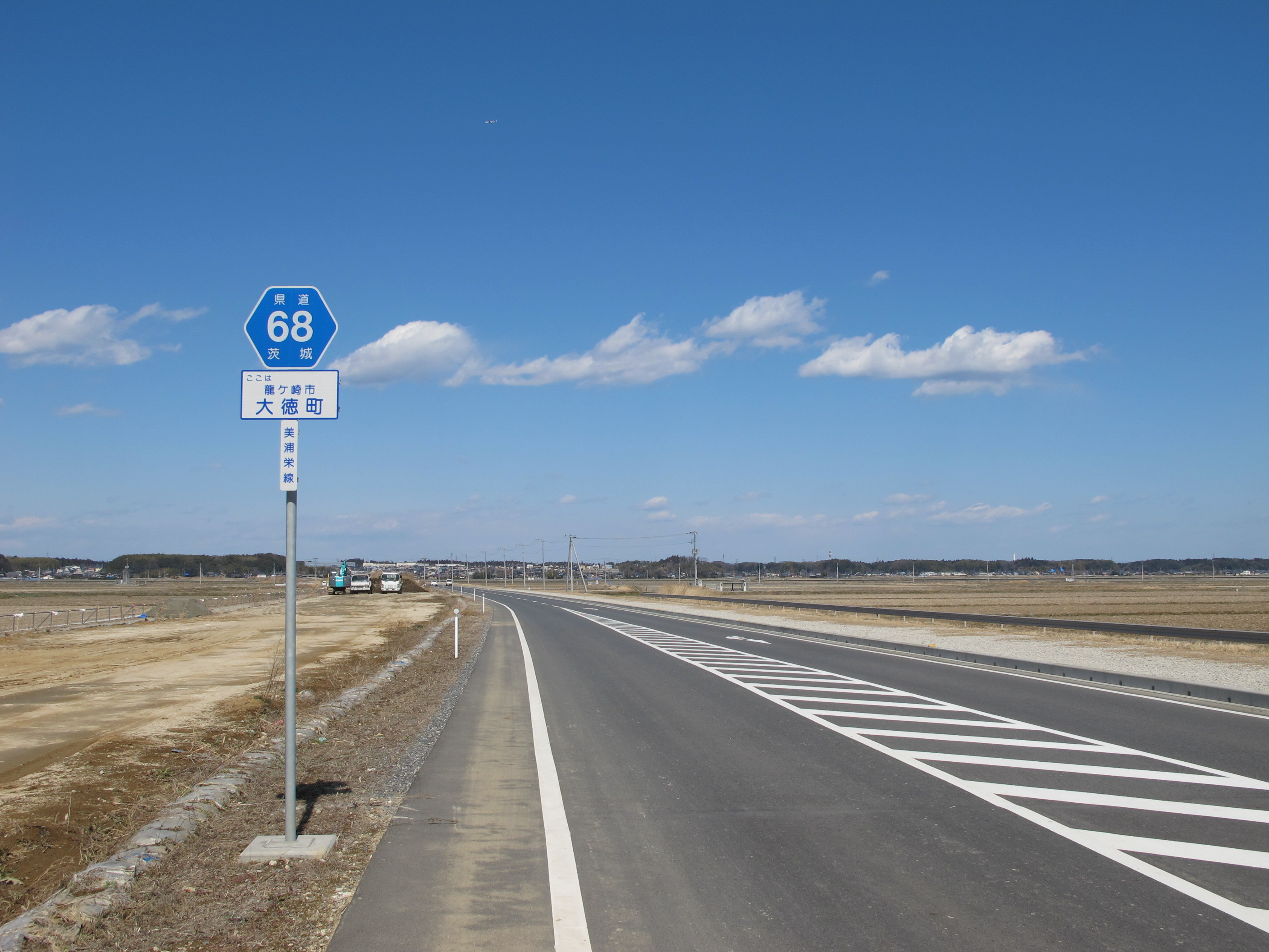 Ibaraki Prefectural Road Route 68 in Daitokumachi, Ryugasaki City